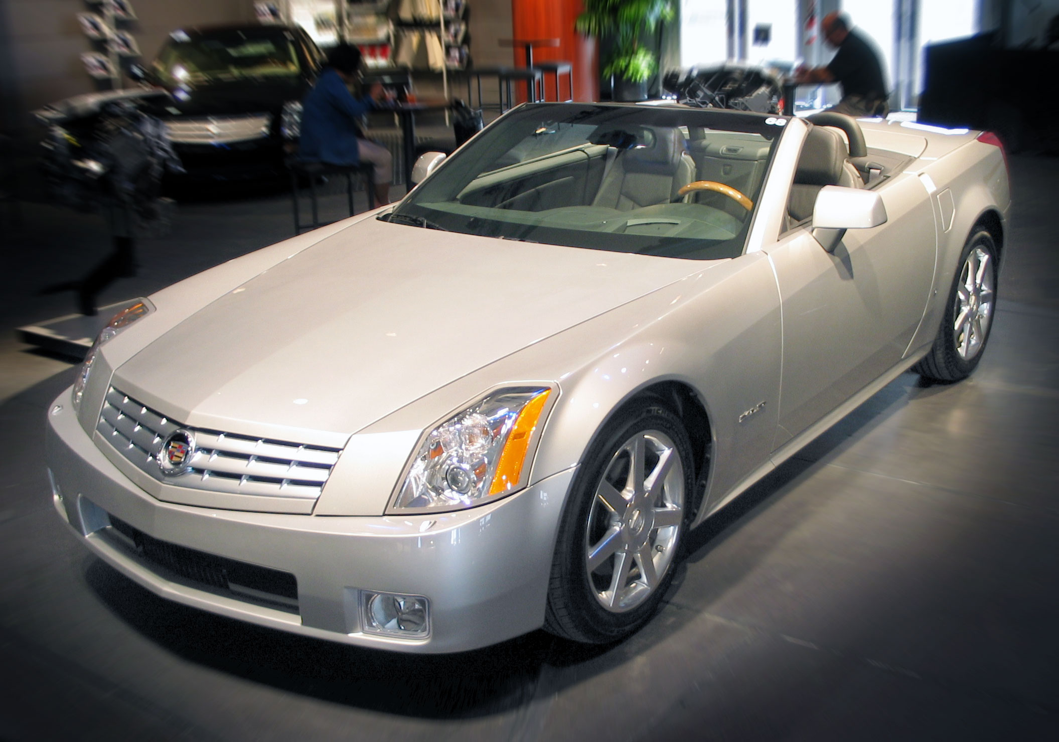 Photograph of 2006 Cadillac XLR. Taken at El Toro Marine Corps Base, Irvine, California - October 30th 2005